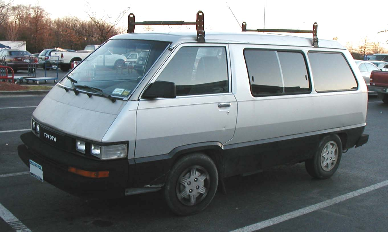 1984-1989 Toyota Van photographed in Waldorf, Maryland, USA.